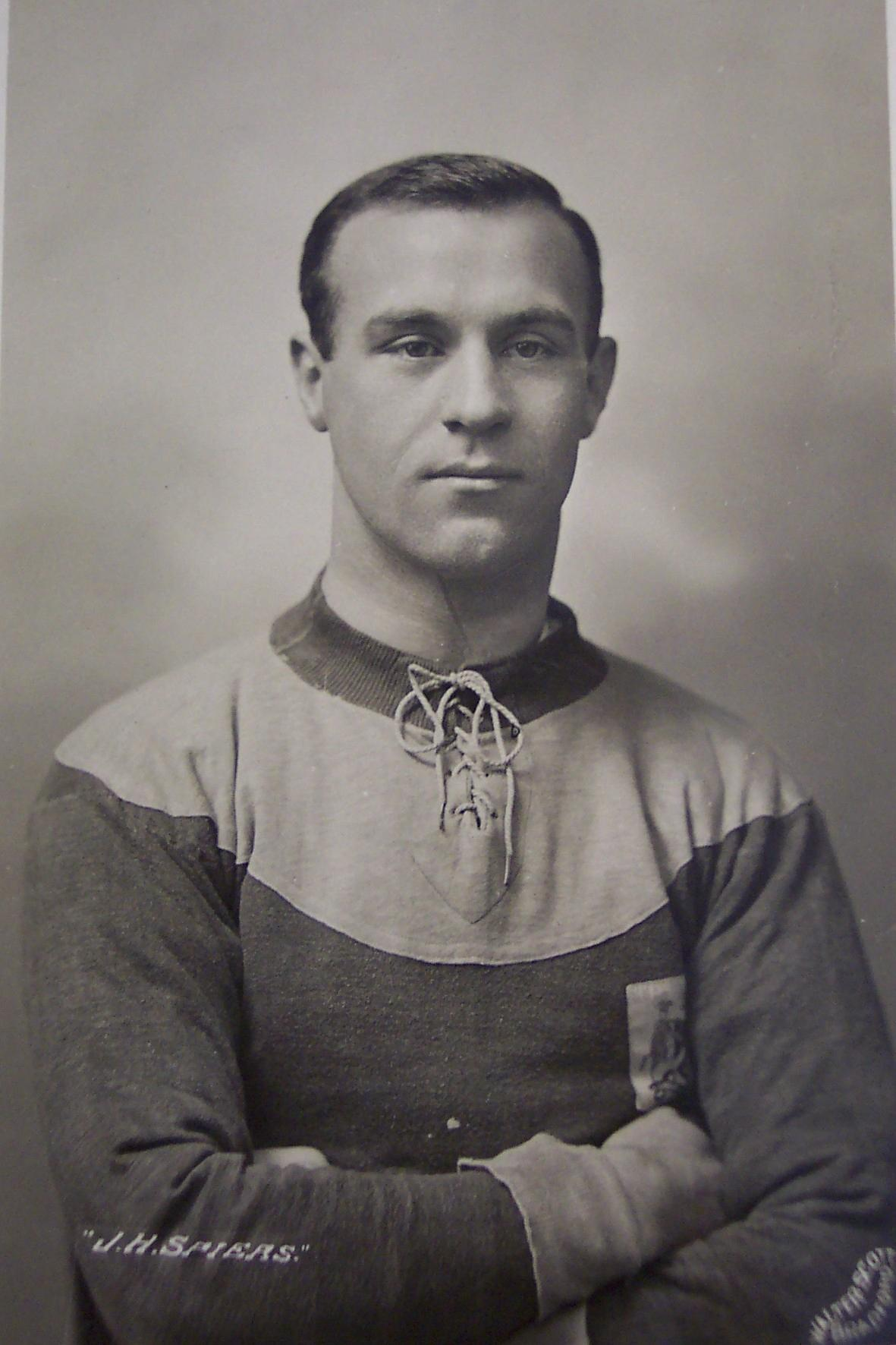 Scottish footballer Jimmy Speirs, pictured in his days at Bradford City